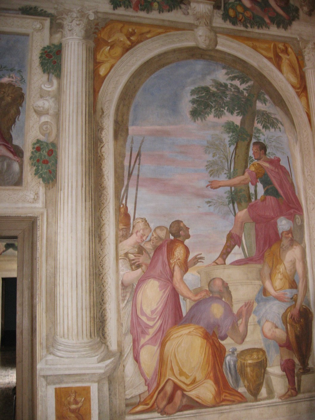 Villa Caldogno (Caldogno, Province of Vicenza). Frescos of the left wing by Giovanni Battista Zelotti (1526-1578), completed on or before 1570 with "Episodes of Scipio's life" and "Stories of Sophonisba".